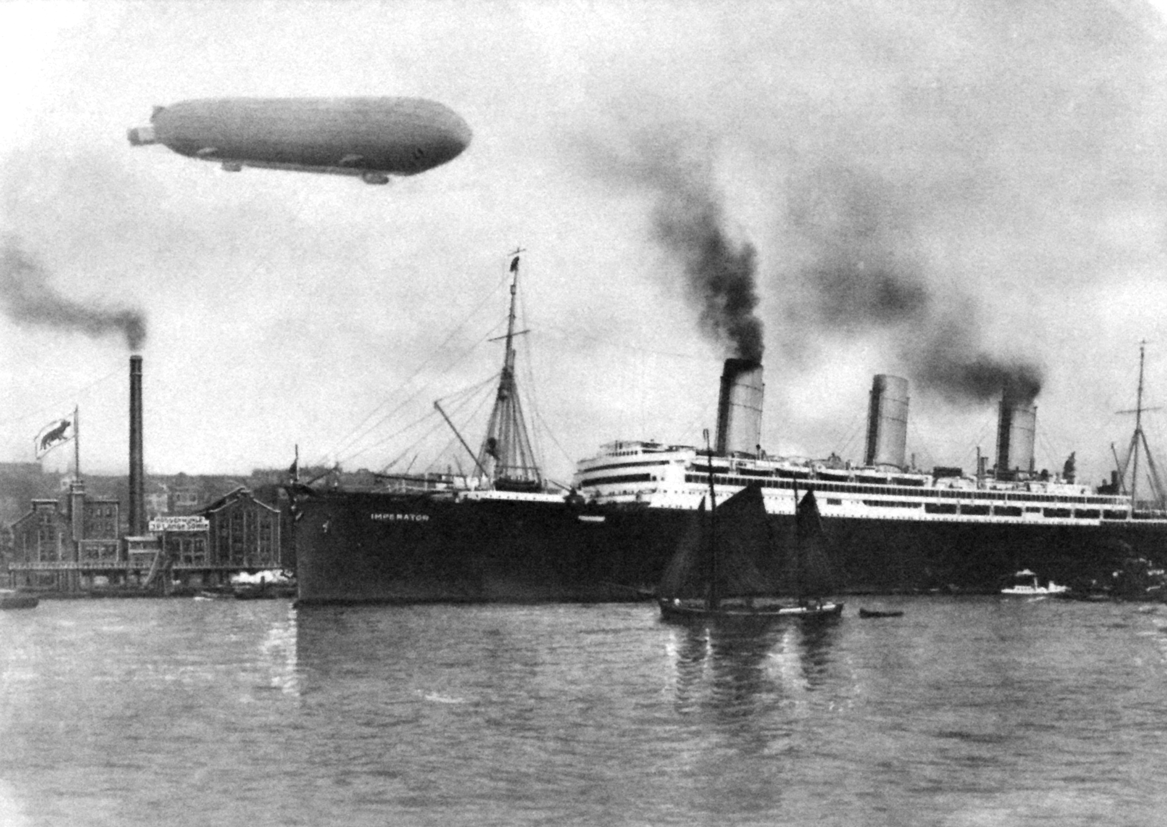 SS Imperator in front of the mill J. P. Lange Sons in Altona near Hamburg with naval airship L 1 (LZ 14)